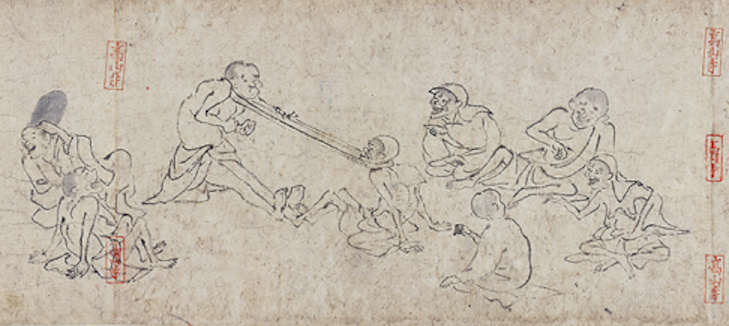 Two people playing tug-a-war with their heads in the former part of the third scroll of Chōjū-jinbutsu-giga.